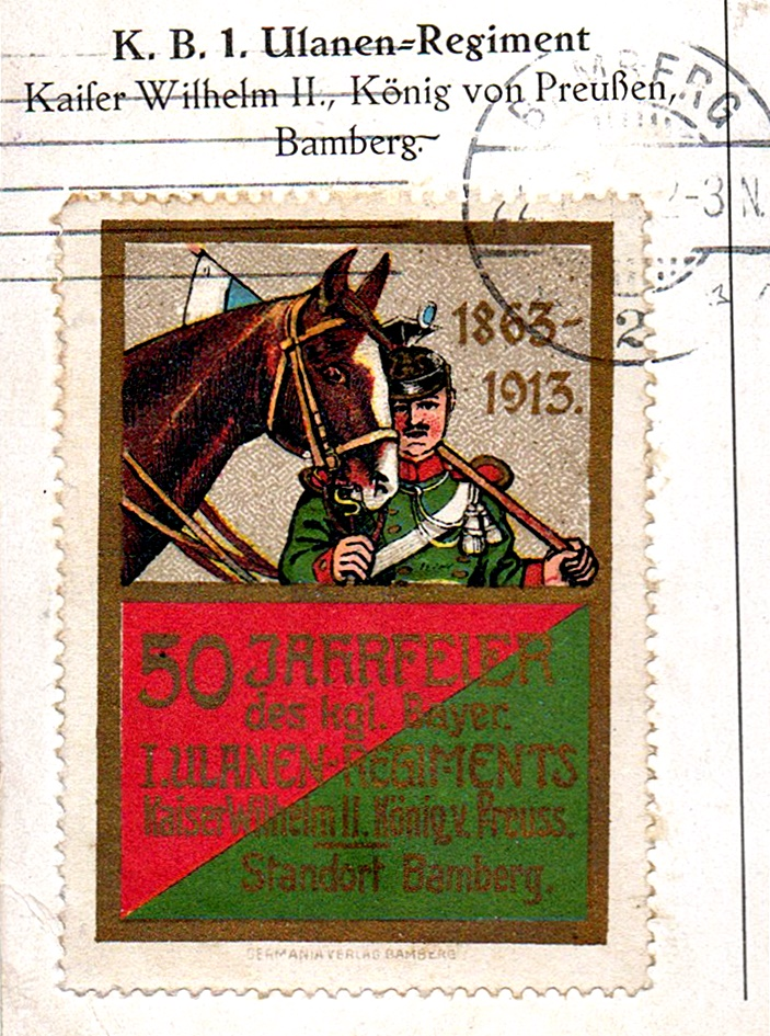 Private Gedenkmarke zum 50. Jubiläum der bay. Kaiserulanen Bamberg, 1913 (eigener Scan von eigener alter Postkarte)